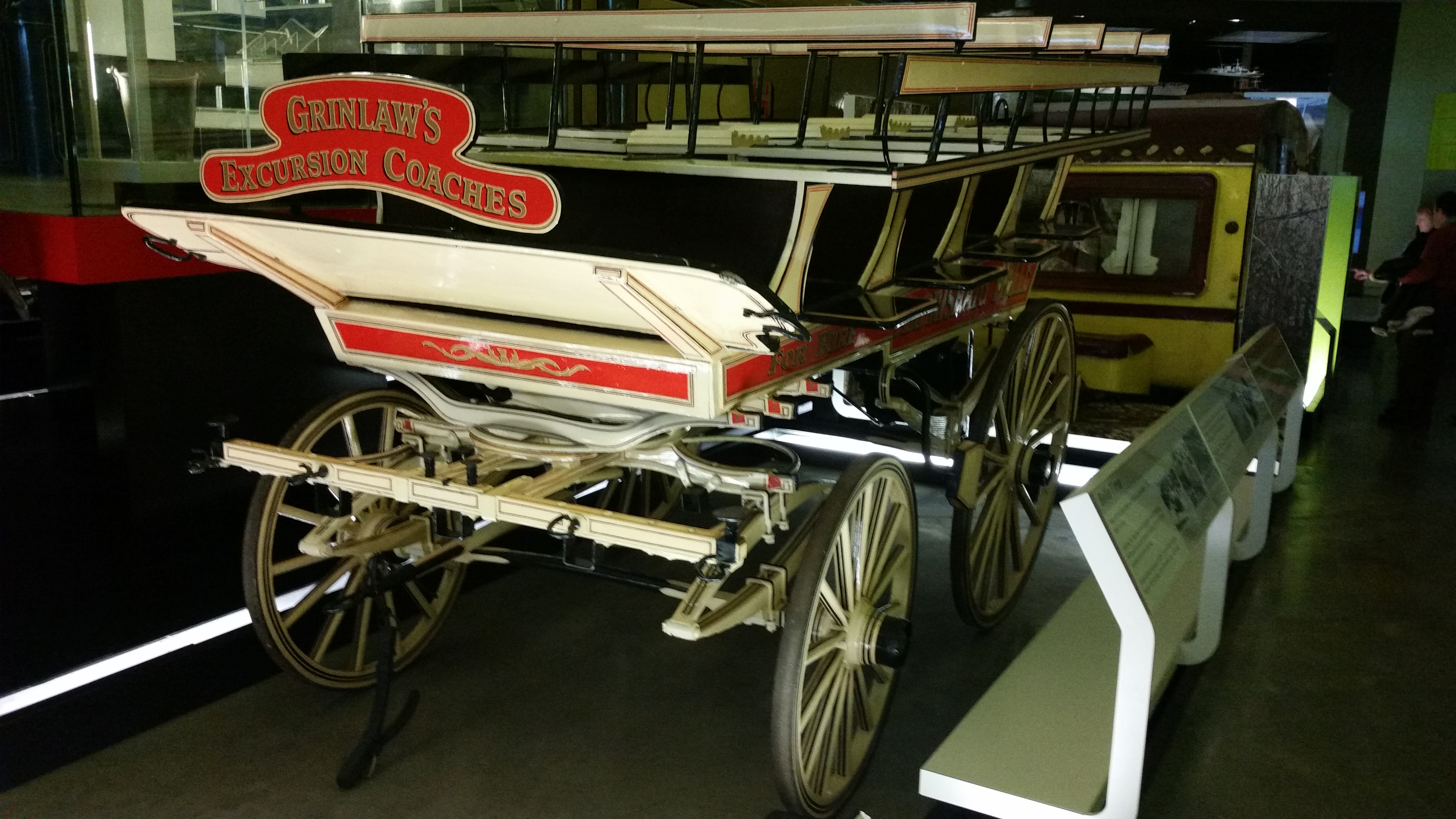 1892 Ardrishaig Belle charabanc Grinlaw's Excursion Coaches Riverside Museum 100 Pointhouse Road, Glasgow G3 8RS